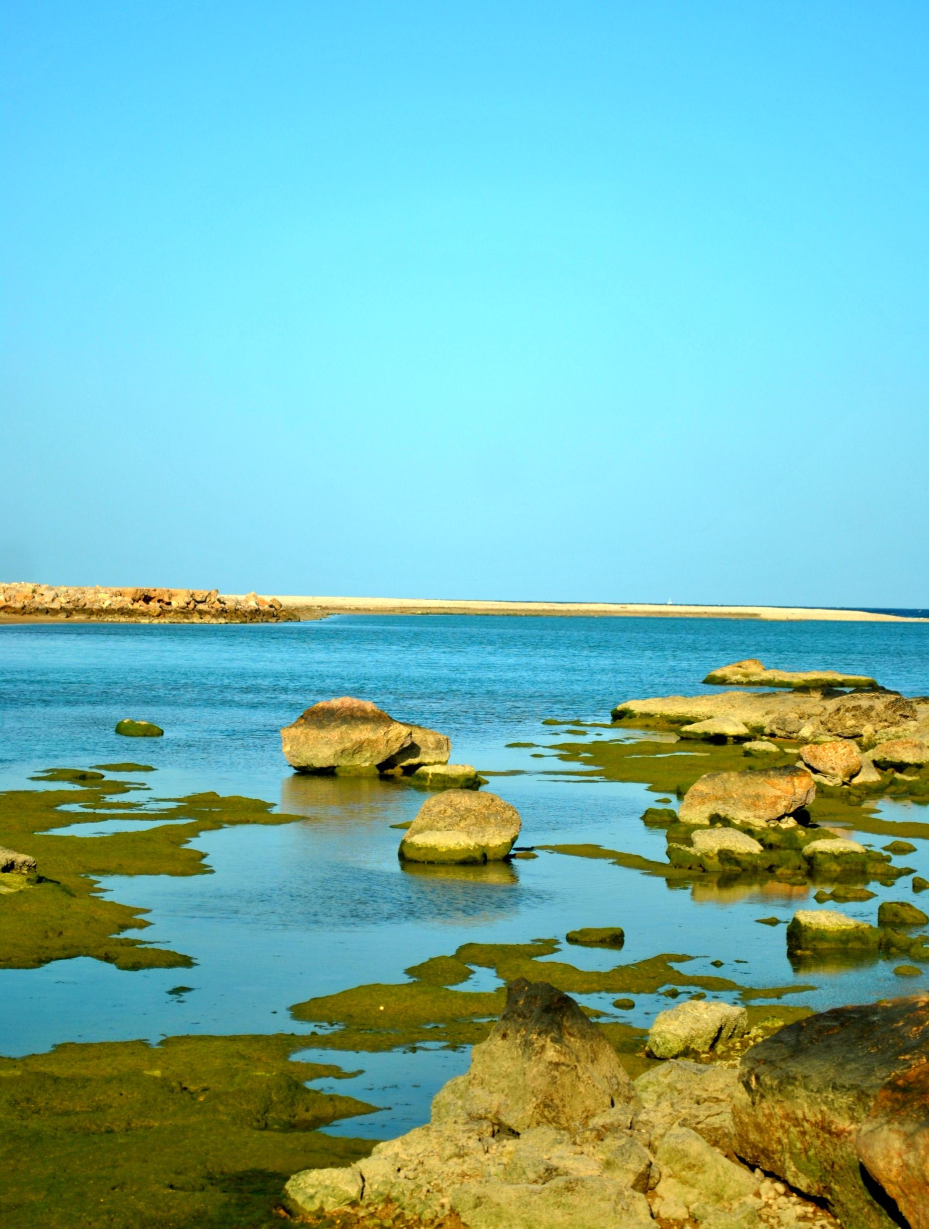 Tiwi Beach, Oman